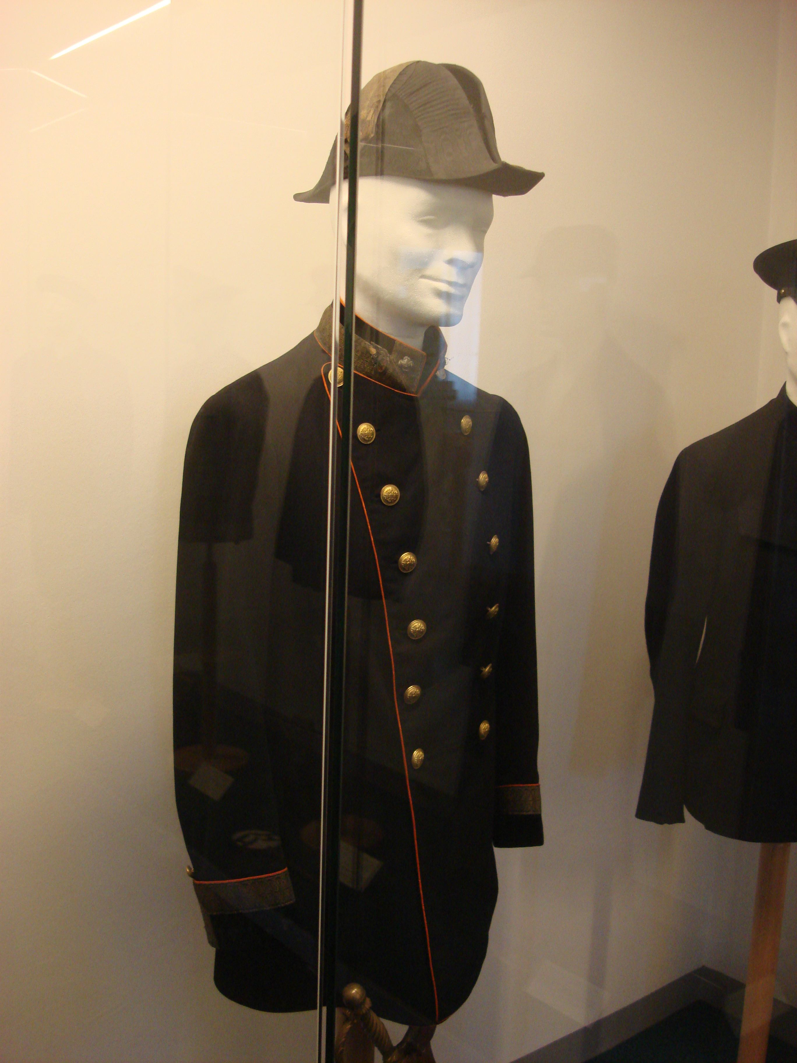 Full dress of kkStB (Imperial and Royal Austrian state railways), used towards the end of the 19th century.